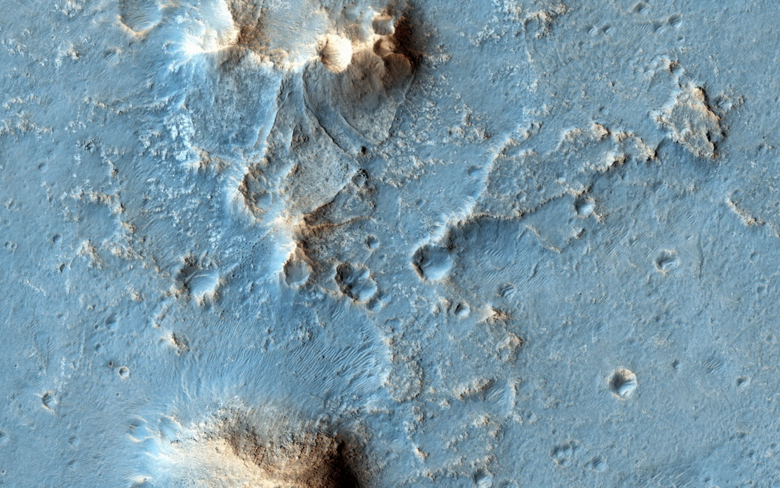 Oxia Planum is a plain located on Mars (near 18.2°N 336°E) that has been chosen as a preferred landing location for the ExoMars rover. Oxia Planum contains one of the largest exposures of rocks that are around 3.9 billion years old. The site is clay-rich, indicating that water once played a role here. The site sits in an area of valley systems with the exposed rocks exhibiting different compositions, indicating a variety of deposition and wetting environments. Clay may offer preservation for biosignatures against the planet's harsh radiation and oxidation environment